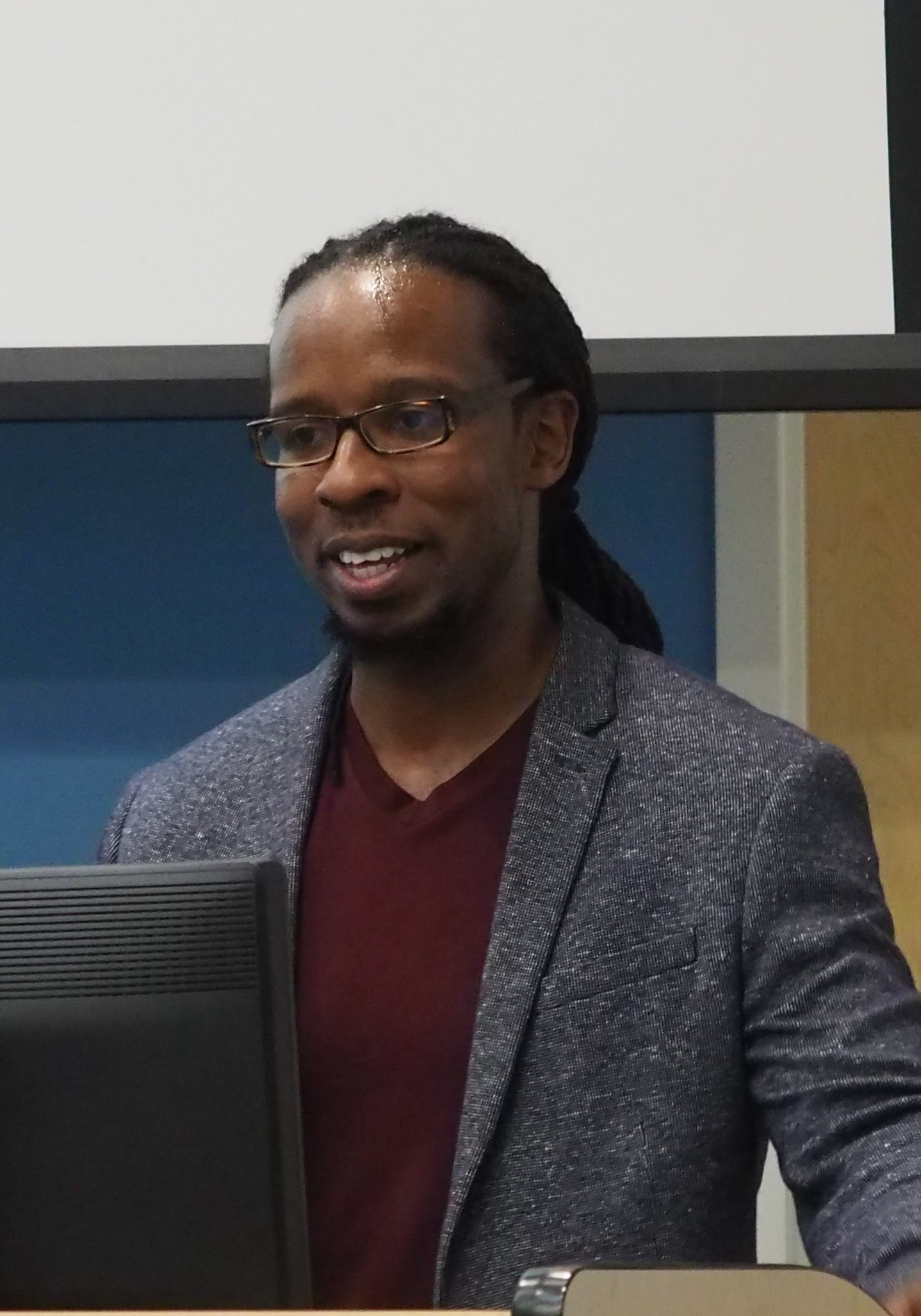 reading at Fall for the Book